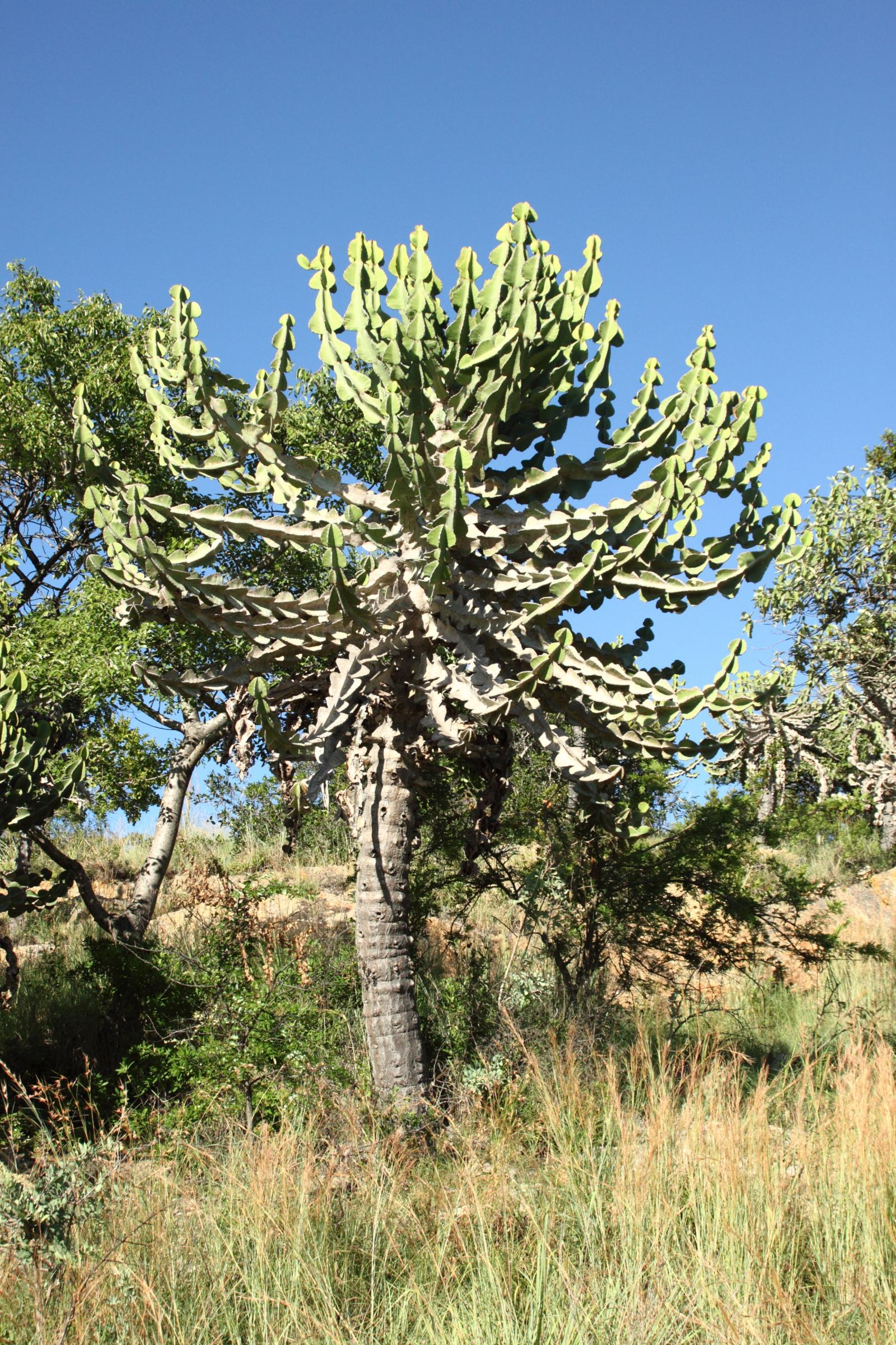 Transvaal candelabrum tree